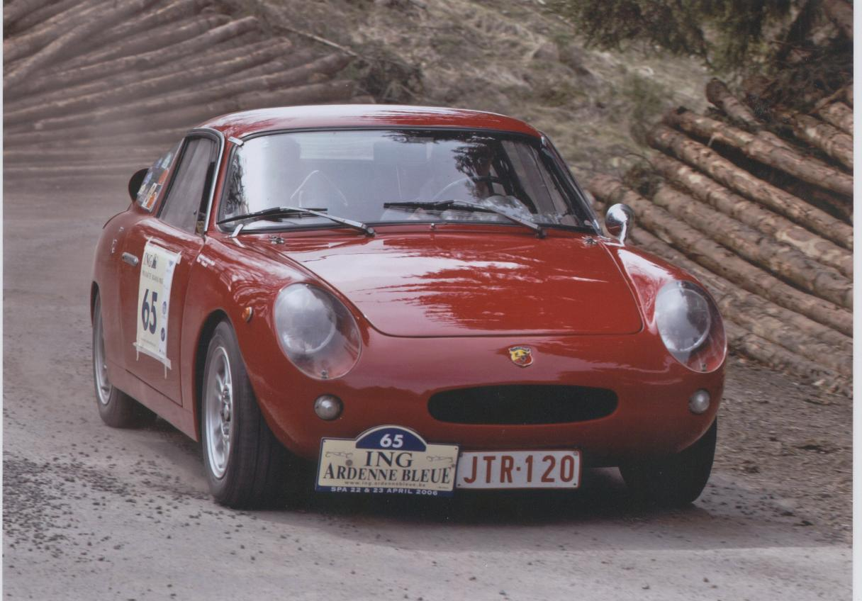 Abarth Monomille